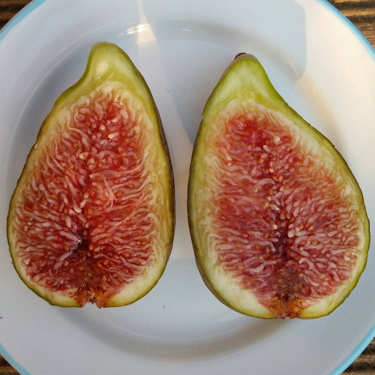 Breba of the Ficus carica fig variety Longe d'Août in Vienna.